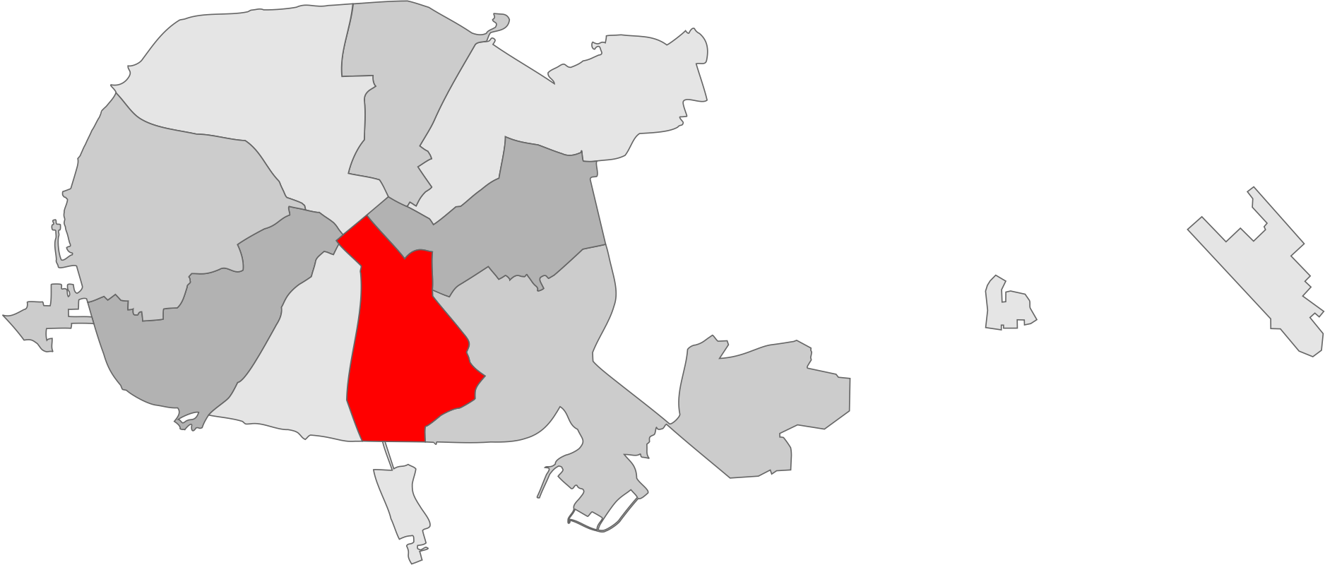 ==Leninski district within Minsk city limits